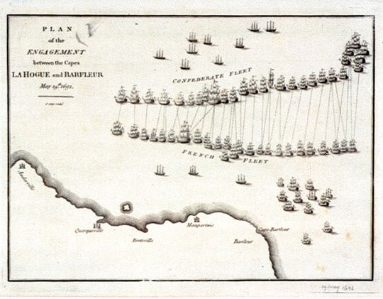 Plan of the engagement between the Capes La Hogue and Barfleur May 19th 1692; engraving